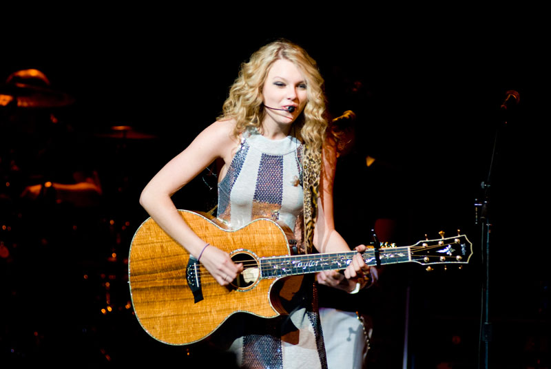 Taylor Swift performs in Joliet, IL, USA in February 2008. Photo by Adam Bielawski